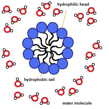 Micelles